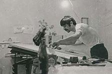 Mousavi's younghood, while designing an architectural project